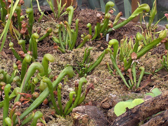 Species Darlingtonia californica Family Sarraceniaceae